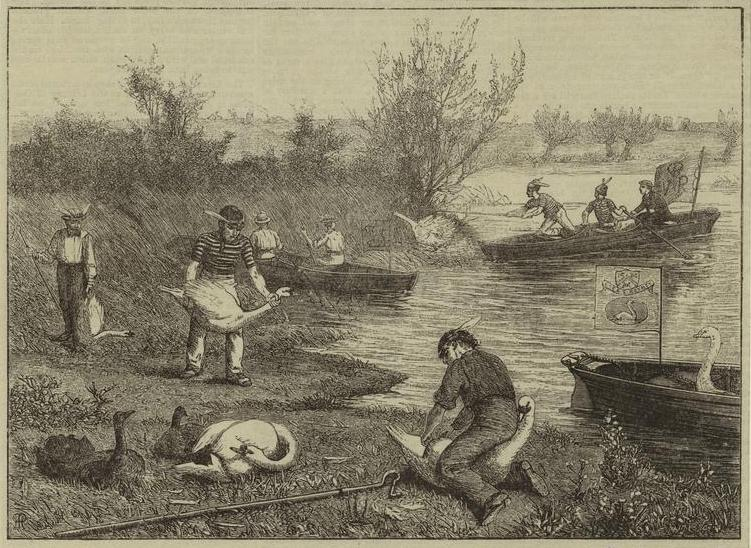 Image Title : "Swan Hopping". Swan upping on the Thames, 1875 illustration. "The skiffs belonging to the Queen, the Dyers' Company and the Vintners' Company are identified by their respective flags. The crews, sporting swan feathers in their hats, catch the birds by the neck with their swan-hooks and immobilize them in the boats by tying their feet behind their backs ; marking - or as shown here pinioning - of both adult and immature birds is carried out on the bank." (Description from Arthur MacGregor, "Swan rolls and beak markings. Husbandry, exploitation and regulation of Cygnus olor in England, c. 1100-1900", Anthropozoologica, 1995, vol. 22, p. 41)